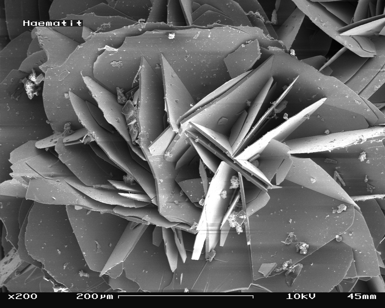 Hematite in Scanning Electron Microscope, magnification 200x